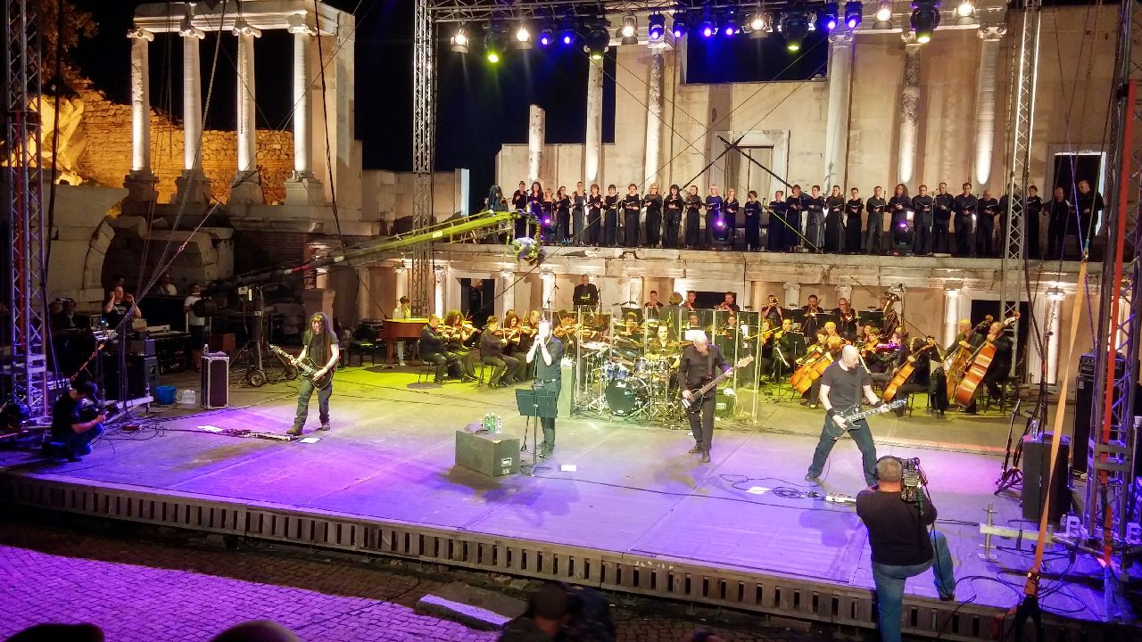 Paradise Lost performing at the Ancient Roman Theater in Plovdiv, Bulgaria, September 20, 2014